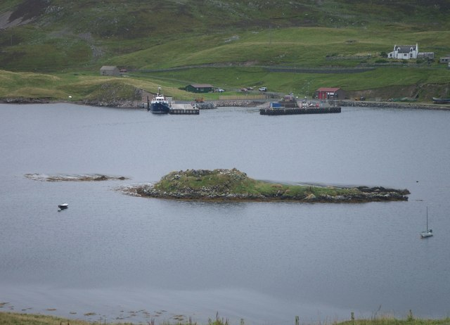 Broch of West Burrafirth In the past this Broch was connected to the shore by a stone causeway now eroded away. Once home to the Viking raider Thorbjorn, who was slain here by Hakon and Magnus who were two Jarls of Orkney and Shetland.